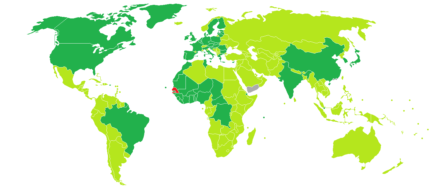 Visa policy of Senegal Senegal Visa-free